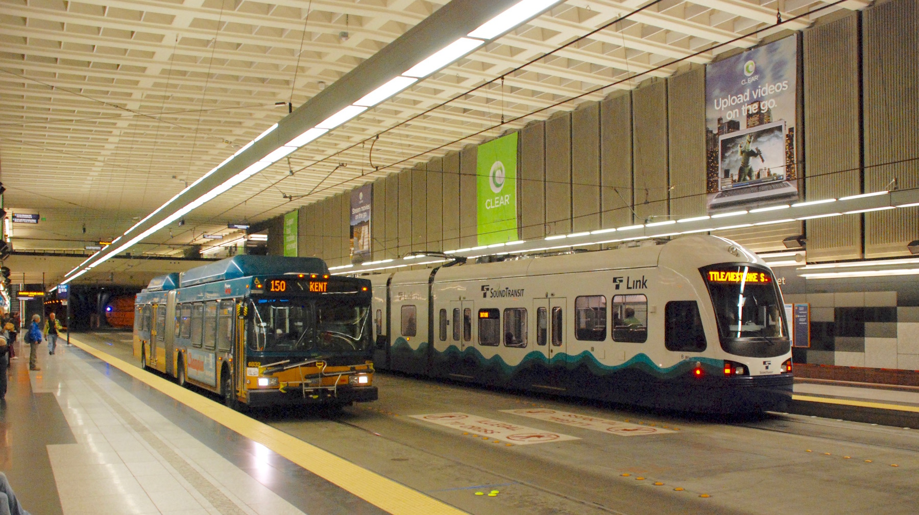 A King County Metro bus passing a Link light rail train at University Street station, in the Downtown Seattle Transit Tunnel. Bus 6832, shown on route 150 to Kent, is a 2008 New Flyer DE60LF hybrid bus.